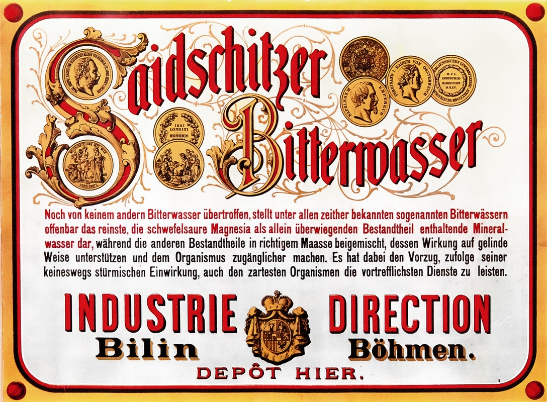 Bottle label (historical) Sedlitz water, German Saidschitzer Bitterwasser